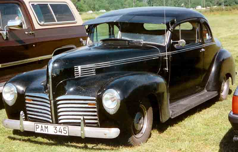 Hudson Traveller Six (Series 40T) Business Coupé (1940)